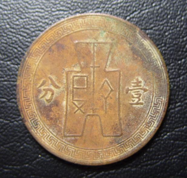 gubutu Chinese coin